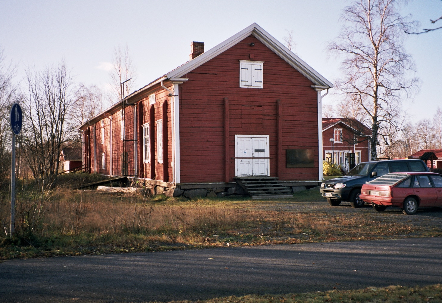 The sawmill museum in Pateniemi, Oulu, 2007.